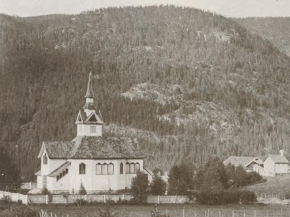 Previous Begnadalen Church, built 1859, burned down 1957. Unknown photographer.